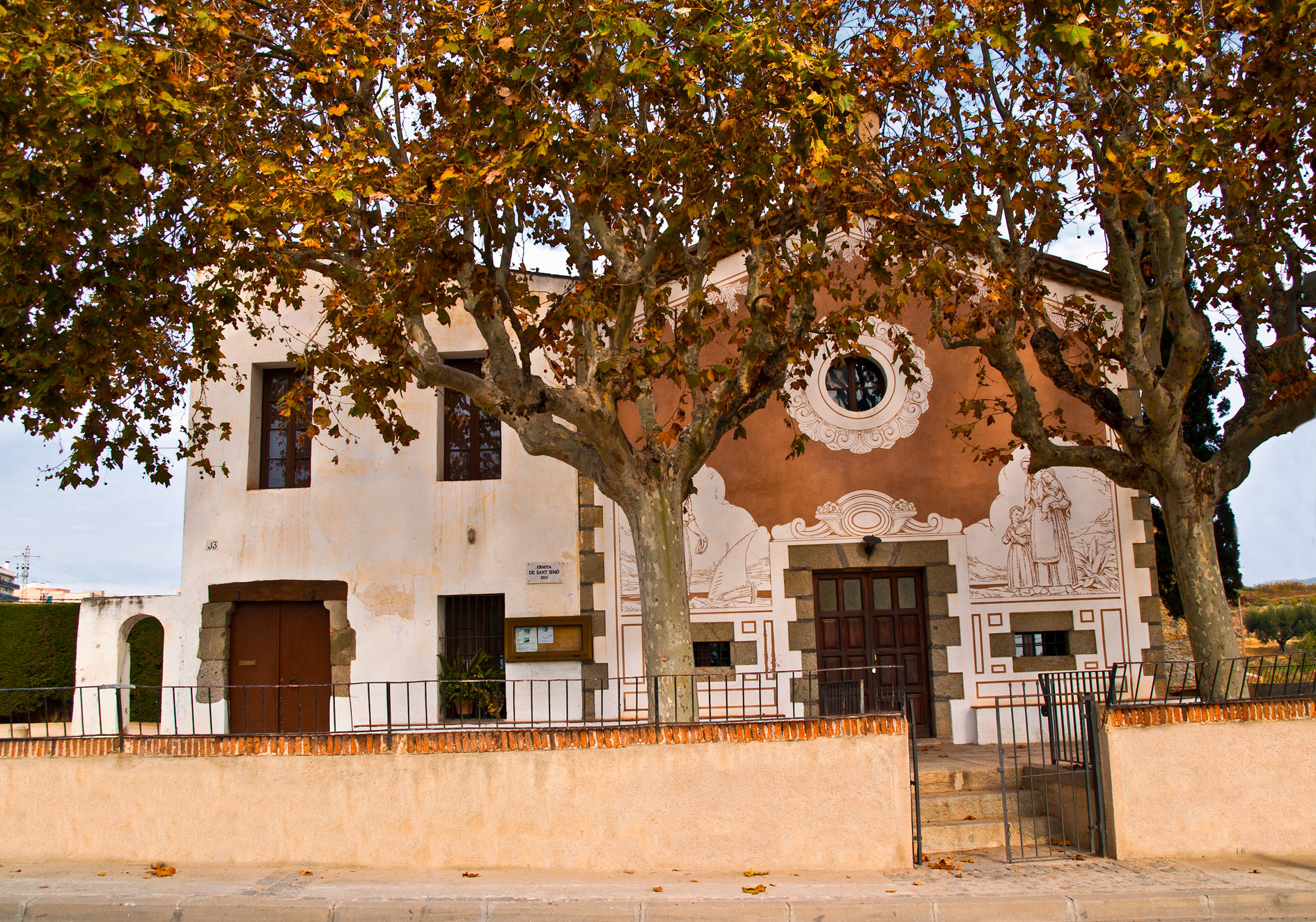 Sant Simó church of Mataró (Catalonia, Spain)